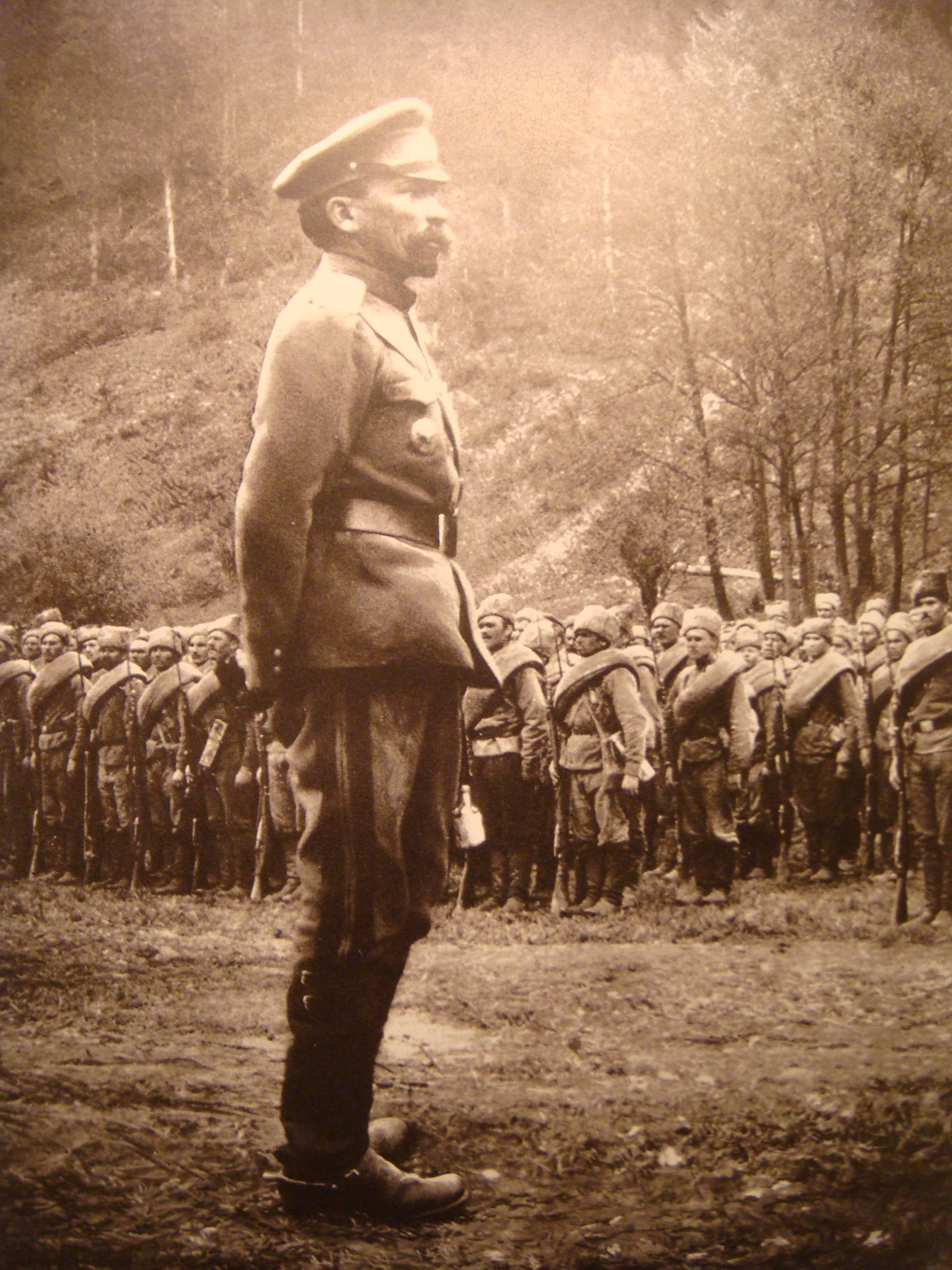 Chief of Staff General Kornilov